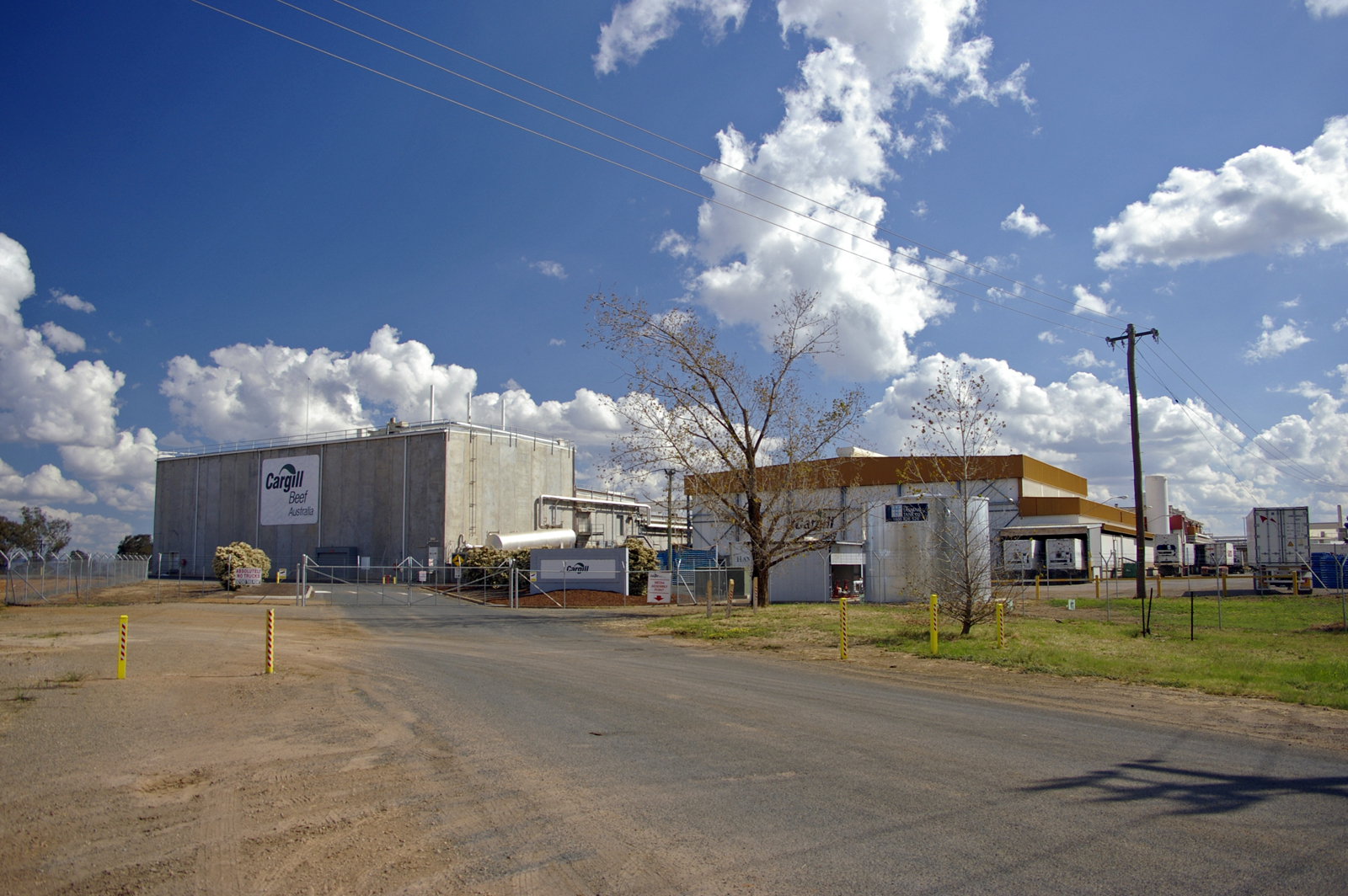 Cargill Beef processing plant in the Wagga Wagga industrial suburb of Bomen.